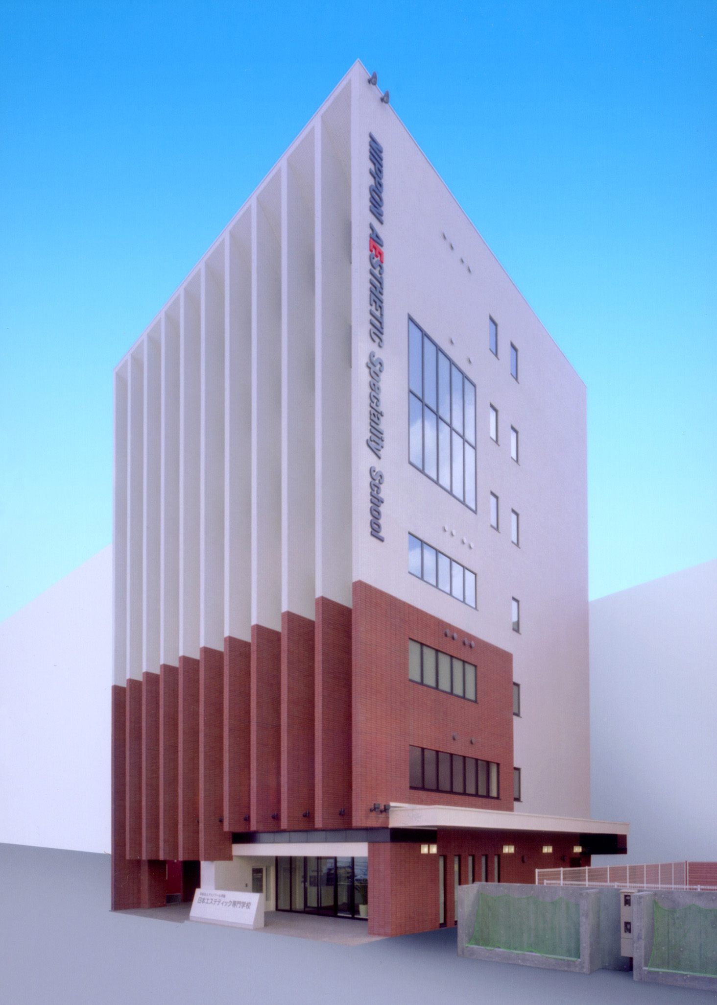 Tekunopuru Gakuen